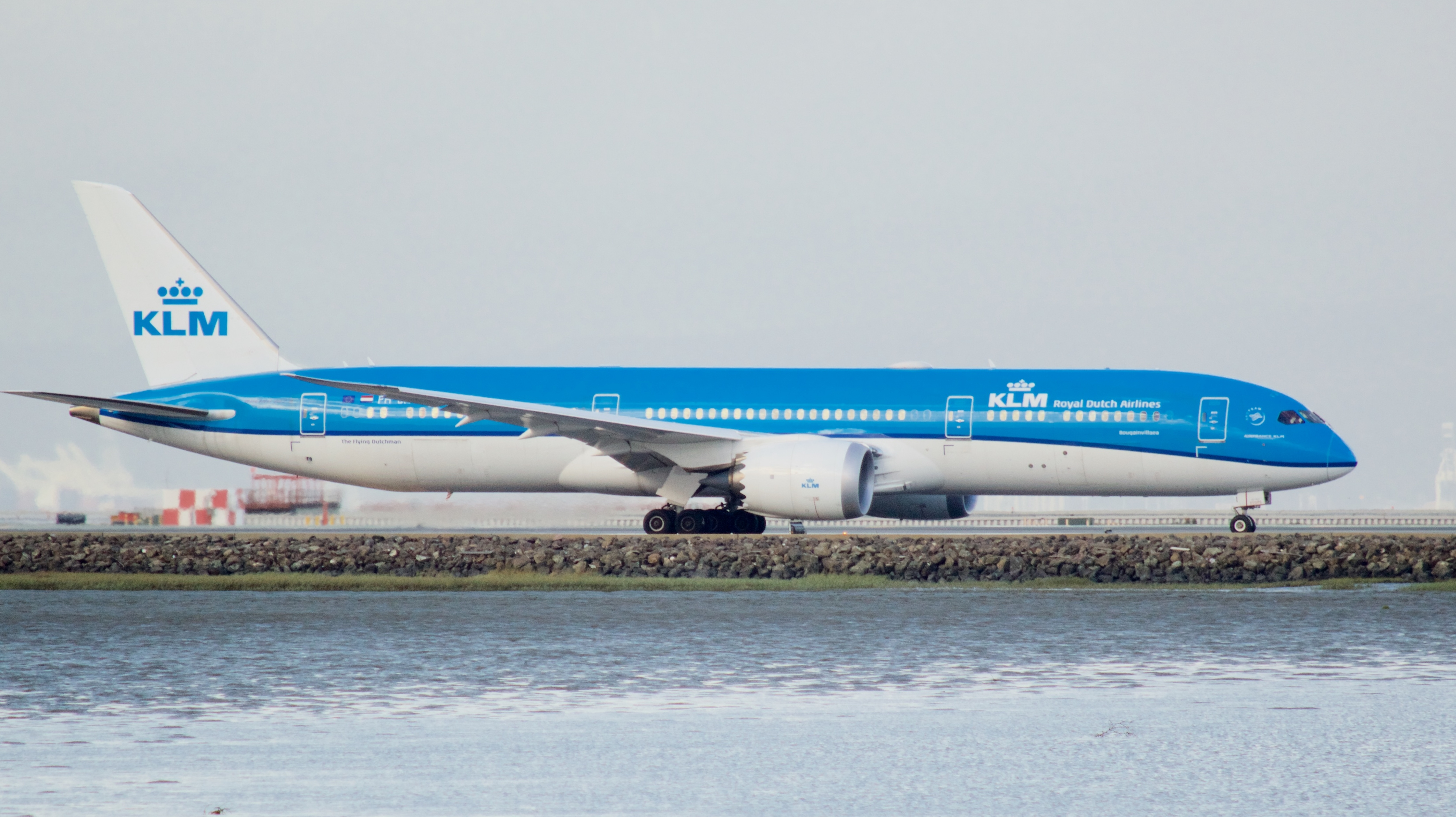 KLM Boeing 787 -9 PH-BHD taxiing out, SFO DSC_0356